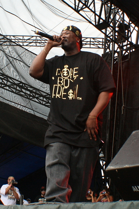 A photograph of Project Pat. He is perhaps most famous for extensively collaborating with the southern hip hop group Three 6 Mafia, which his brother Juicy J helped co-found.